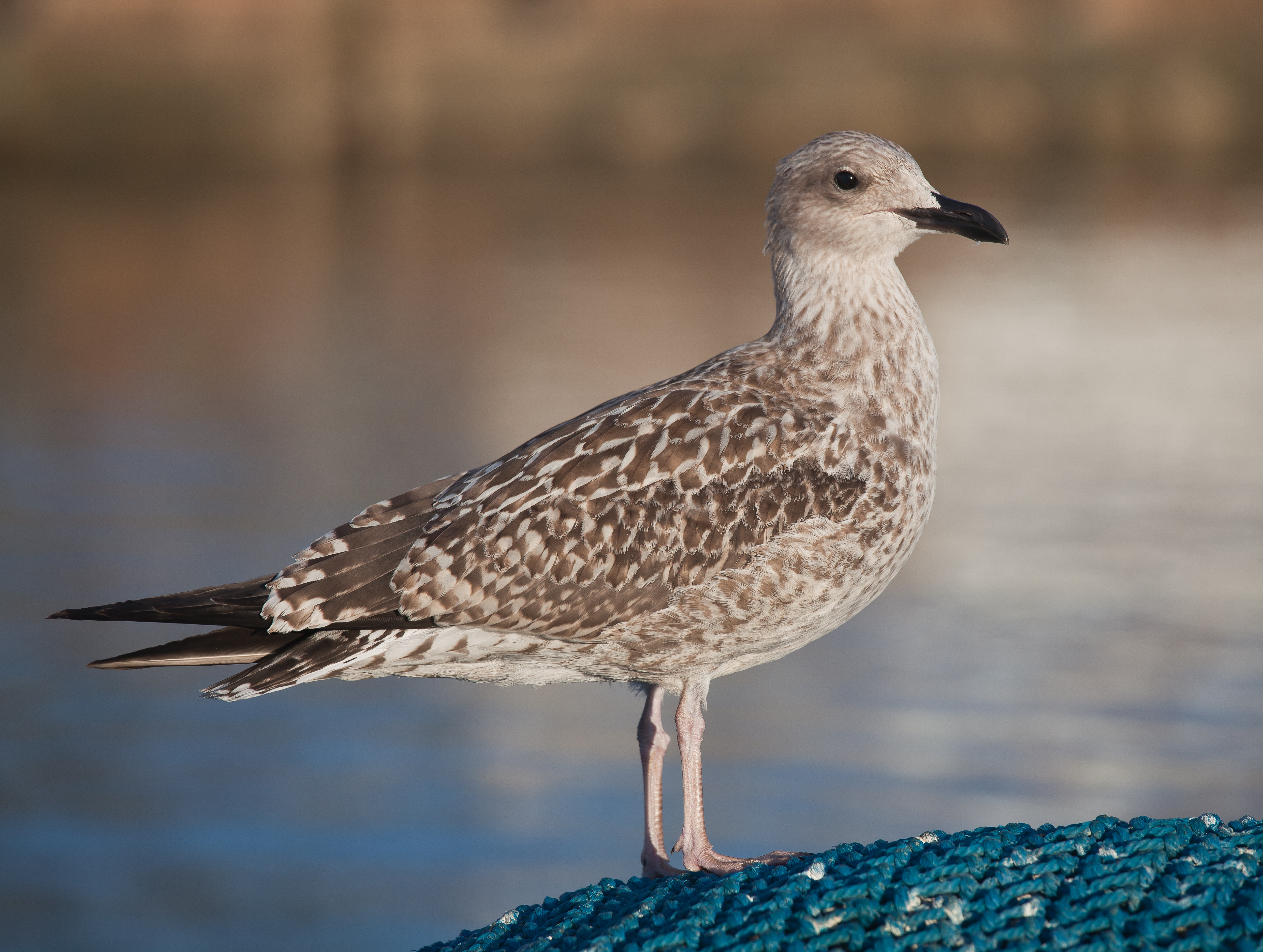 Juvenile Yellow-legged Gull (Larus michahellis), Portosín, Porto do Son, Galicia, Spain